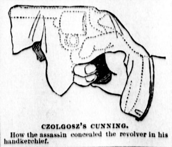 Illustration of how Czologosz's gun was concealed. Chicago Eagle, 9/14/1901